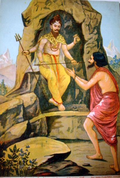 in the "kirat-arjuniya" episode, Arjuna encounters Shiva in the forest, and obtains even more extraordinary arrows and other weapons